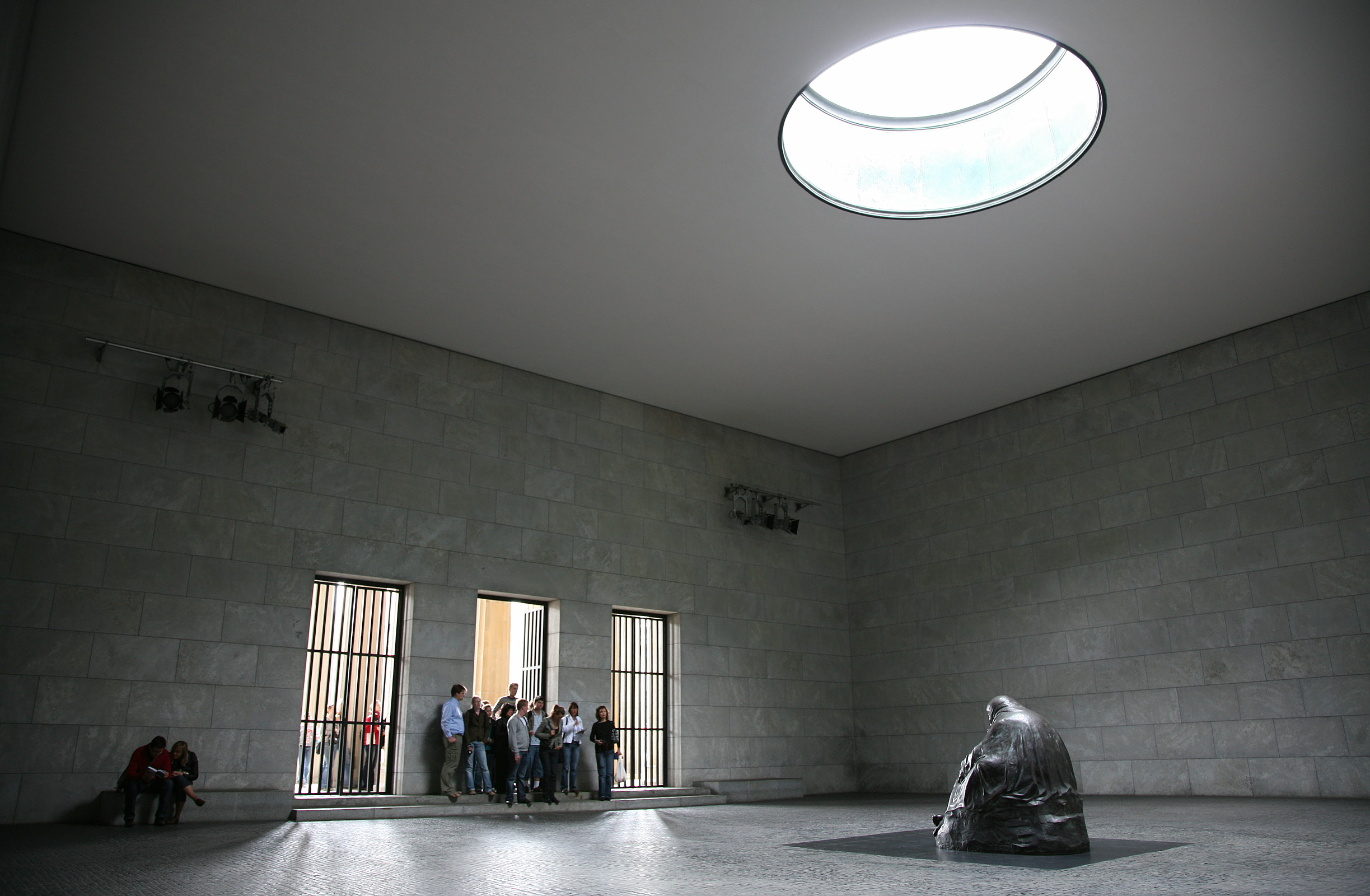 Neue Wache, central memorial of the Federal Republic of Germany for victims of wars and despotism